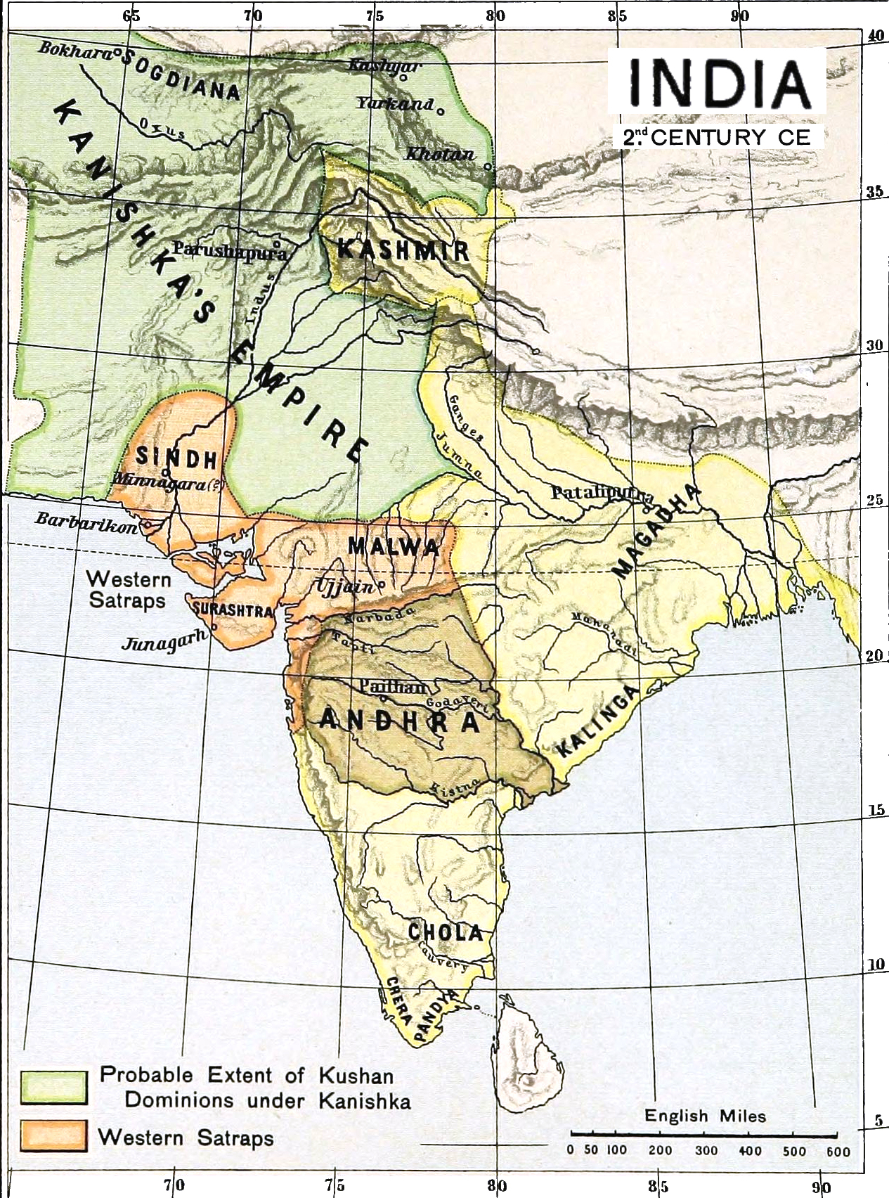 India 2nd century AD